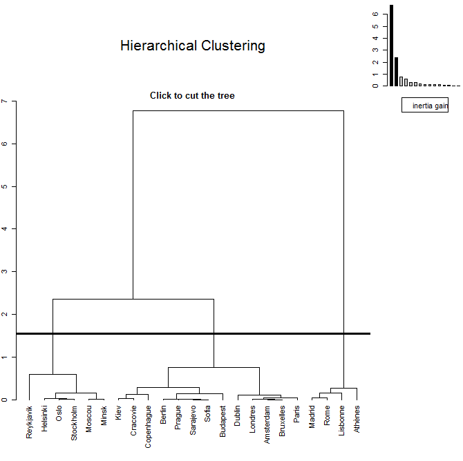 A dendrogram plotted with R